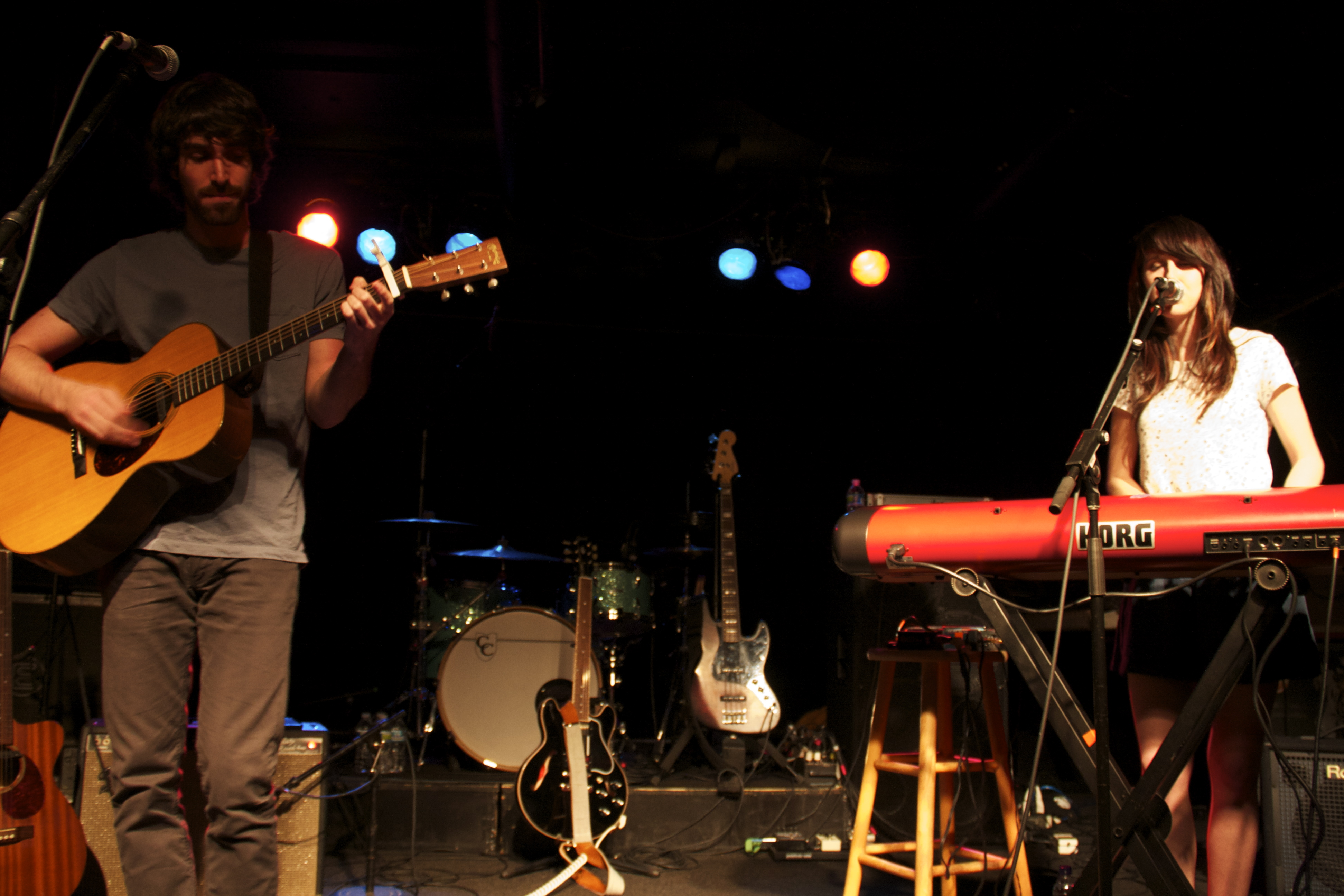 The Narrative opening a show to Eisley in 2011